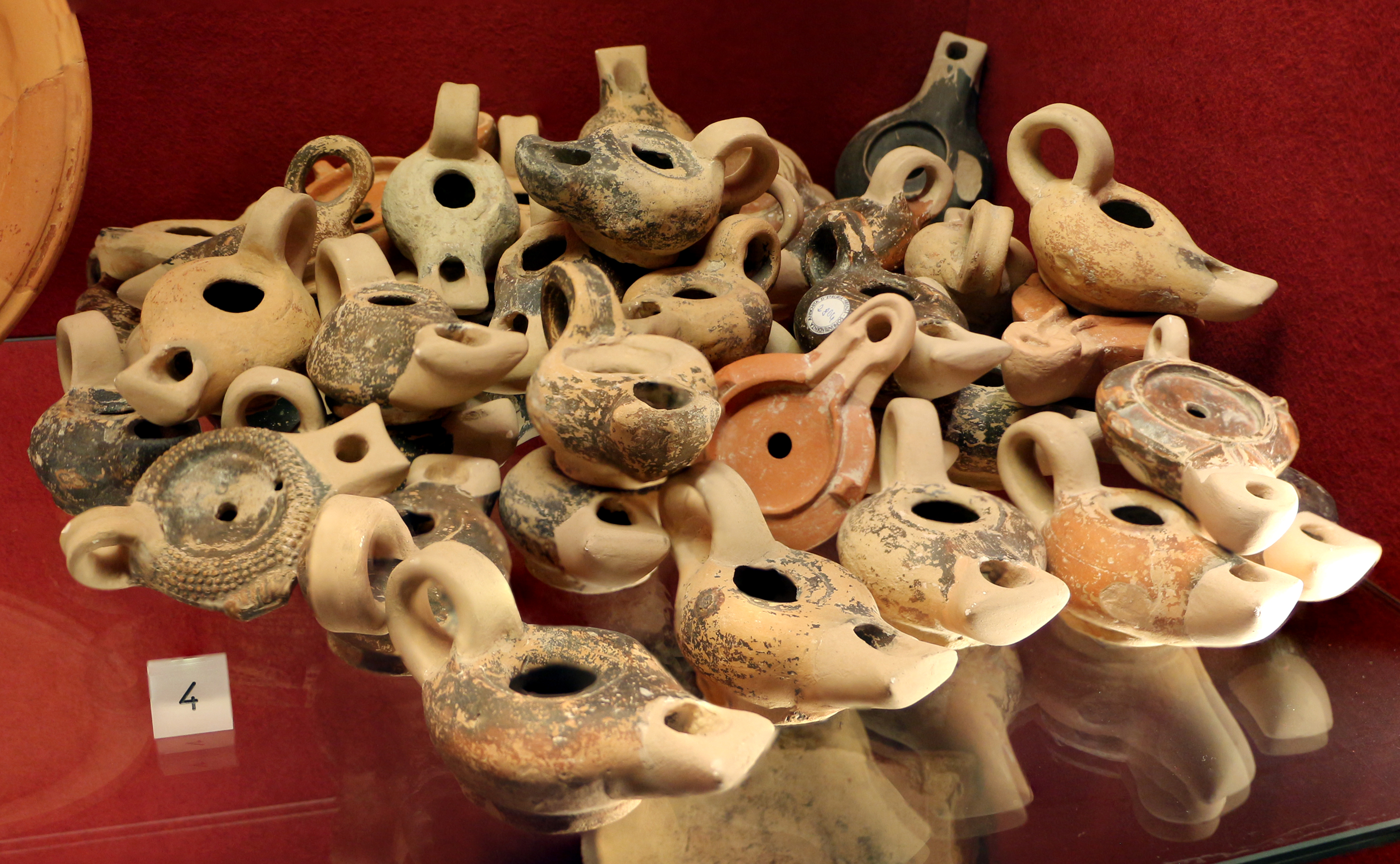 Etruscan antiquities in the Museo archeologico e d'arte della Maremma